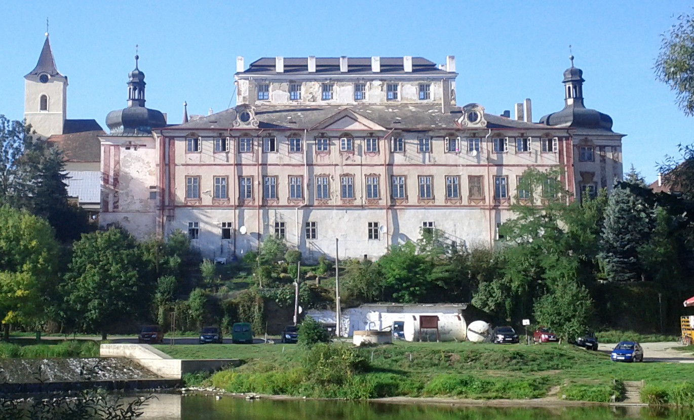 Kácov castle